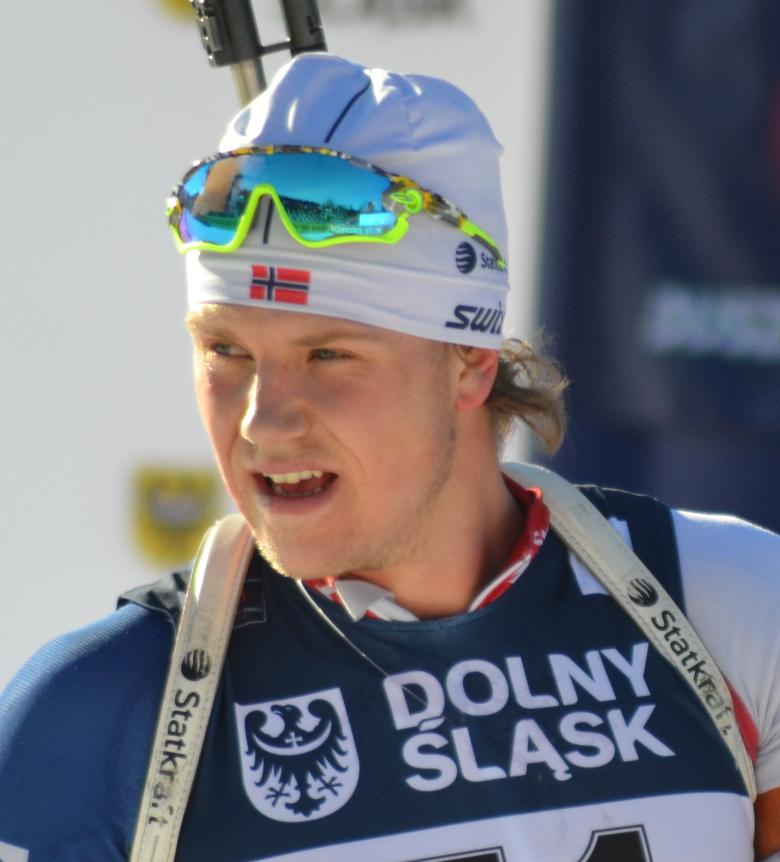 Open European Championships Biathlon 2017, Sprint Mens race.